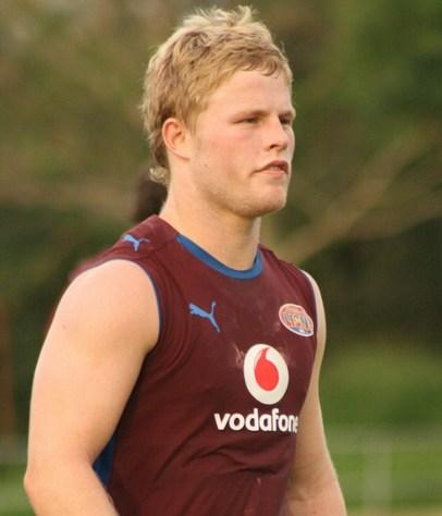 Daniel Rich in pre-season training. December 10th, 2008. Giffin Park, Coorparoo, QLD Australia.